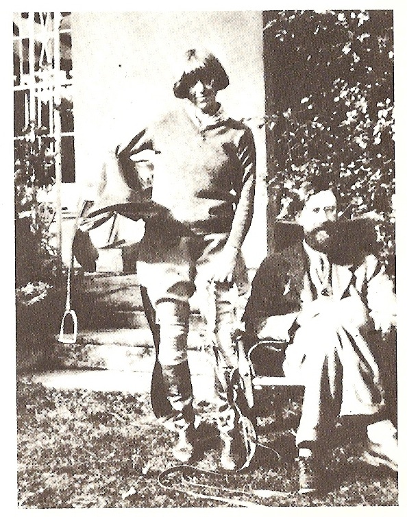 Writer Lytton Strachey and painter Carrington at their house of Ham Spray.